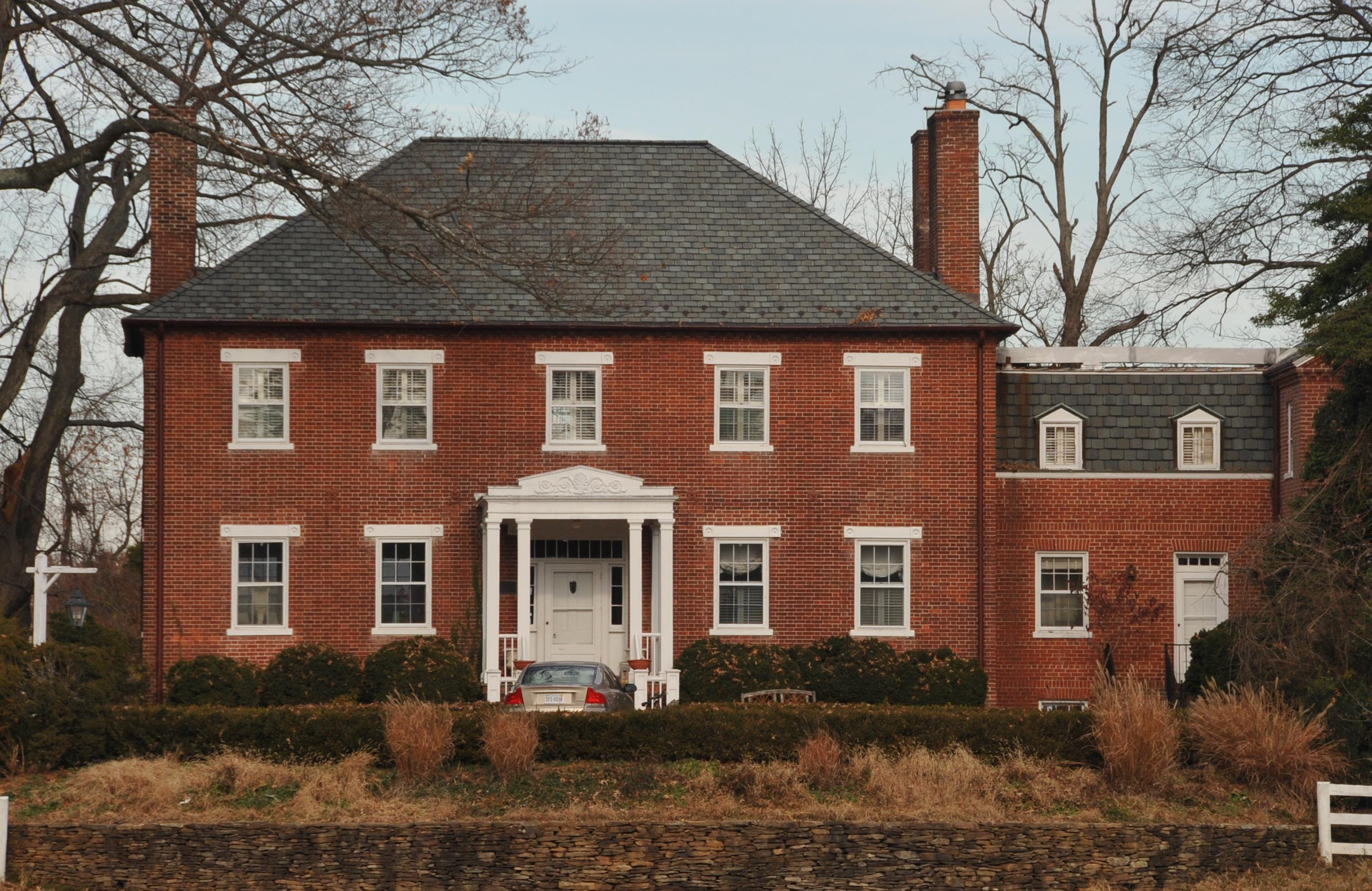 CORNWELL FARM IN GREAT FALLS; THIS IS BUILT UPON LAND THAT ONCE WAS LORD FAIRFAX’S GREAT FALLS MANOR. IN 1801 IT BELONGED TO JOHN JACKSON WHO BUILT THE PRESENT GEORGIAN HOUSE CIRCA 1830. DURING THE CIVIL WAR UNION SOLDIERS BIVOUACKED ON THE FARM